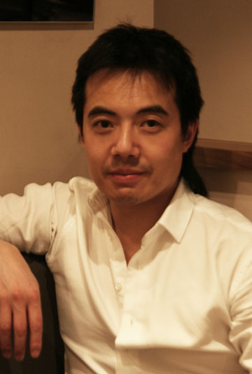 Photographic self portrait of the British/Hong Kong/Chinese contemporary artist Dinu Li, taken 2017 Dinu_Li